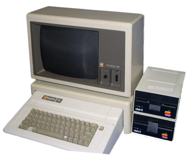 A snap-shot of a typical Apple IIe computer setup when first introduced in January 1983 (original white key-caps, Monitor III with stand and dual Disk II 5.25 drives).